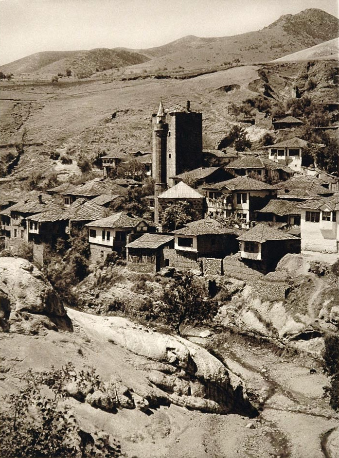 Kratovo in 1926. Macedonia